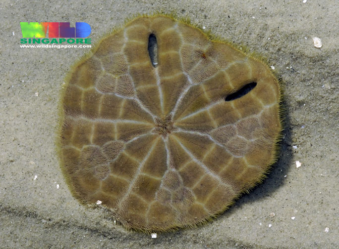 Oral face of test of a Keyhole sand dollar (Echinodiscus tenuissimus) More about this sand dollar on the wildfacts sheets on wildsingapore. For a high res version of this photo, please review the details on about using my photos. When making the request, please include this reference: 031122cjd0023